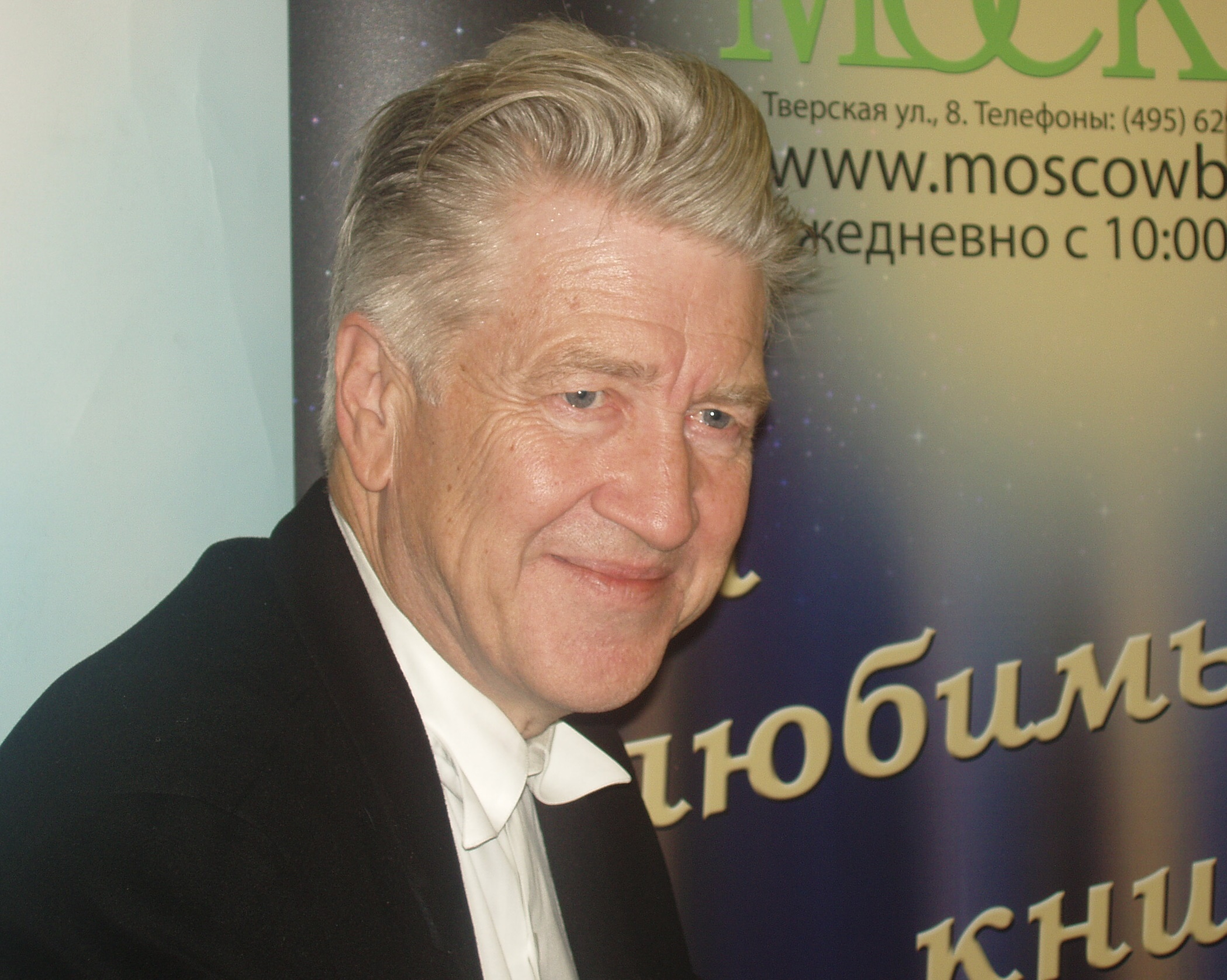 David Lynch on presentation of his book in Moscow